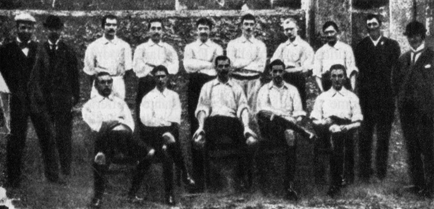 A line-up of Genoa Cricket and Athletic Club in the 1898 season.